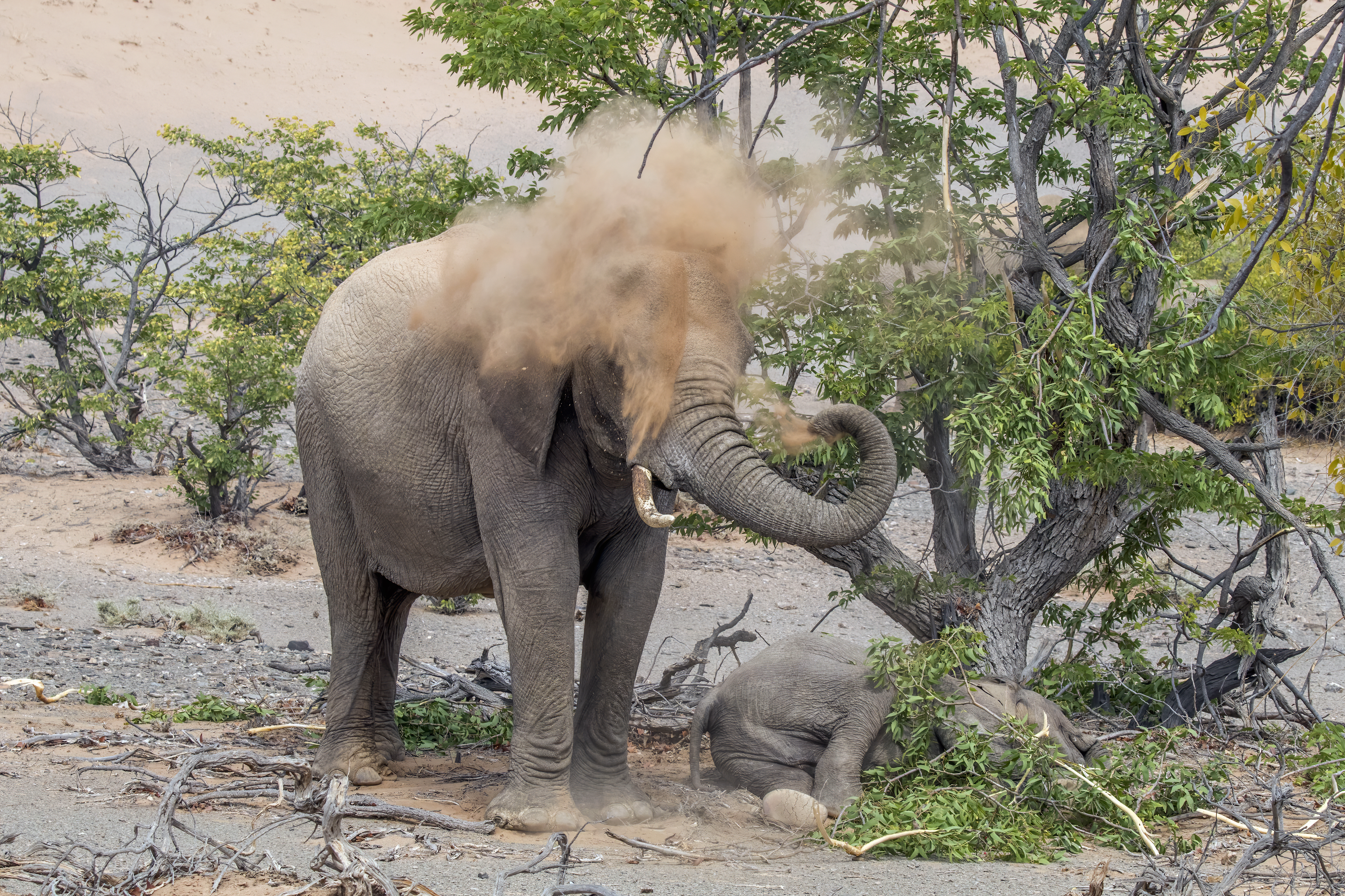 Desert elephant (Loxodonta africana) spraying sand on herself while guarding her sleeping baby. She has covered the baby with a branch. Damaraland, Namibia